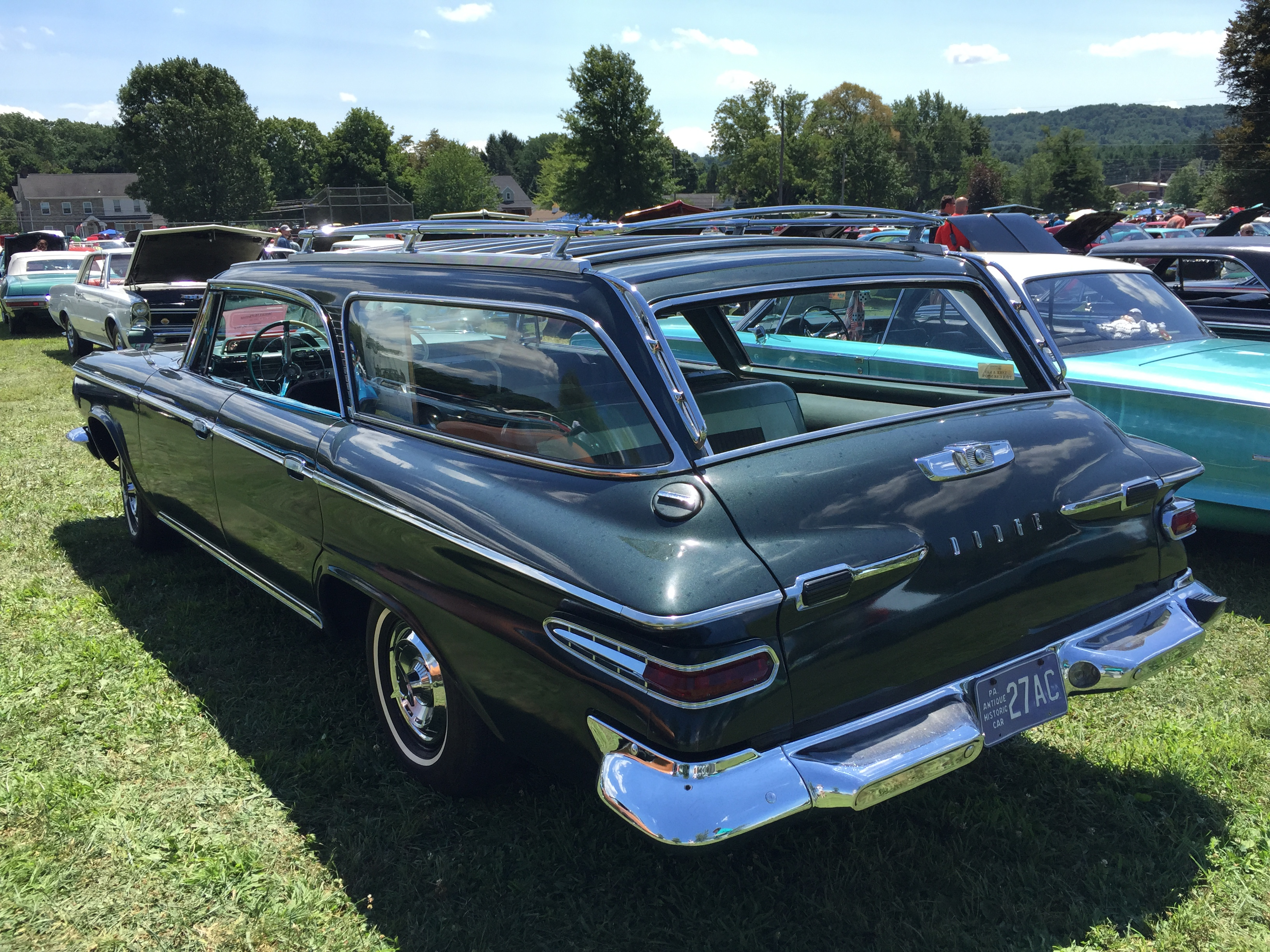 1963 Dodge 880, a full-sized four-door hardtop (no center B-pillar) station wagon with three rows of bench seats (last one is rear-facing) finished in dark blue with a blue interior in original condition. Picture taken at the 52nd Annual "Das Awkscht Fescht" antique car show in Macungie, Pennsylvania.